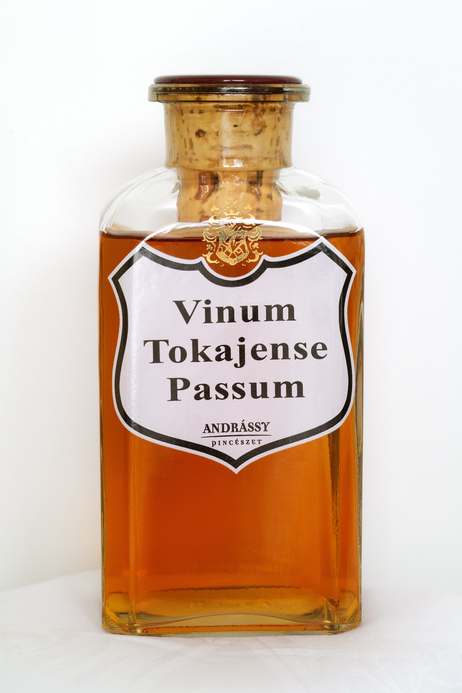 Vinum Tokajense Passum, alcohol-free natural tokaji essence